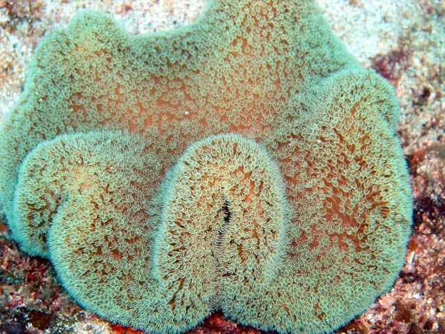 Mushroom leather coral (Sarcophyton sp.), Pulau Aur, West Malaysia